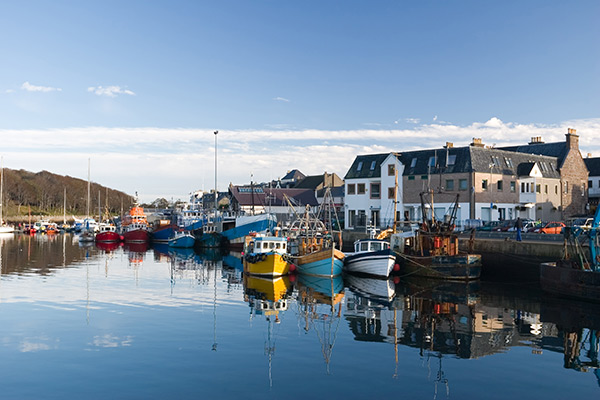 Stornoway Harbour 2005